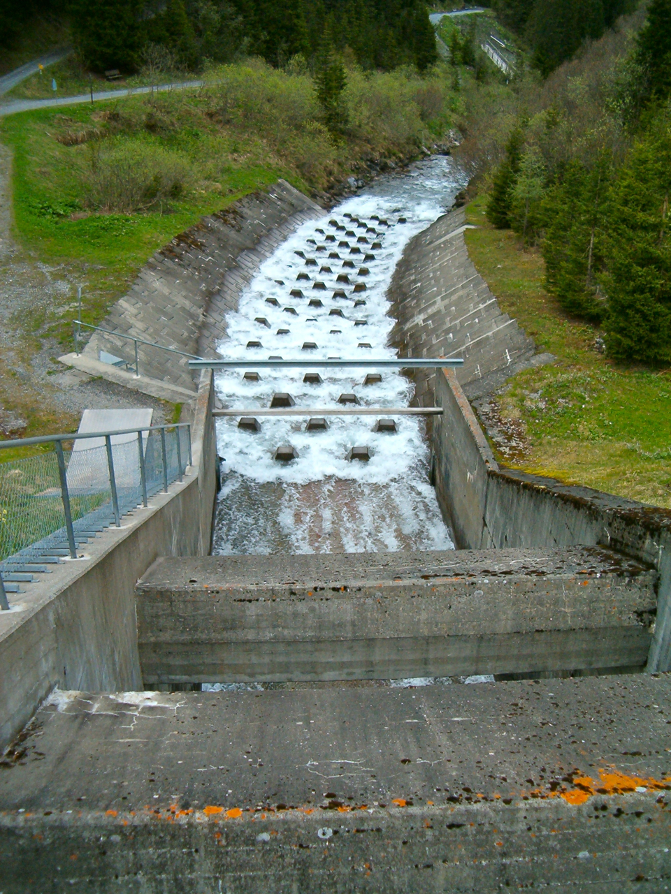 Plessur river below dam of Arosa Stausee